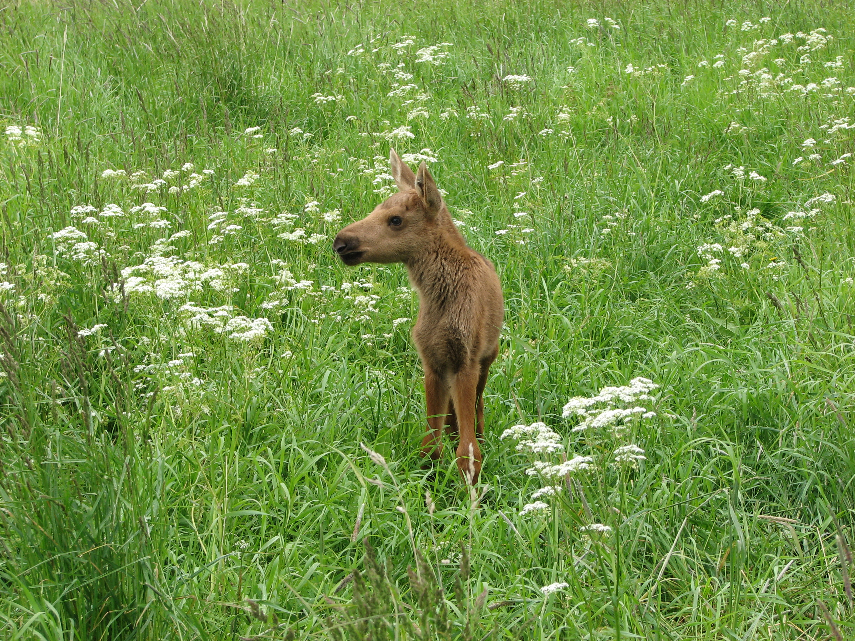 Elk calf in grass (Sweden)